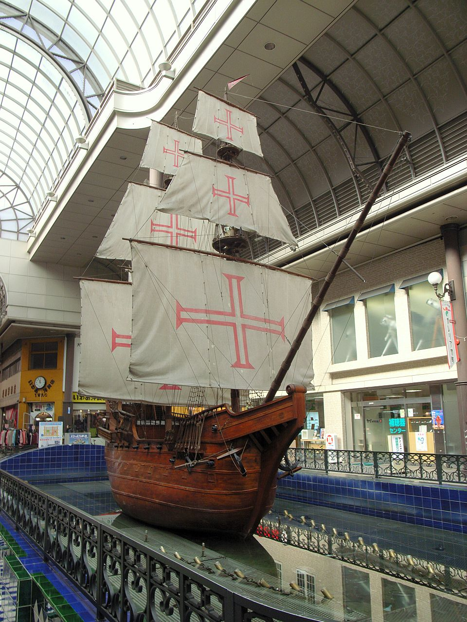 Galleria Takemachi, Shopping Mall in Oita City, Oita Pref., Japan